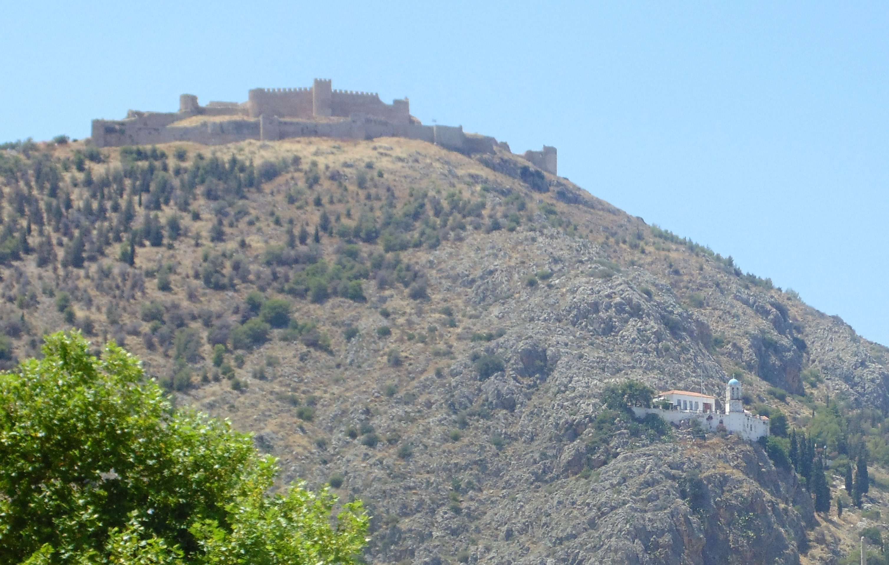 Larissa Castle, Argos